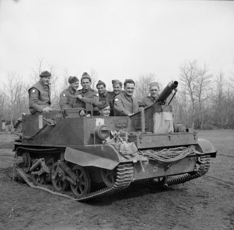 The British Army in Italy 1944 Men of the 2/7th Middlesex Regiment in one of their machine gun carriers at Anzio, 21 February 1944.